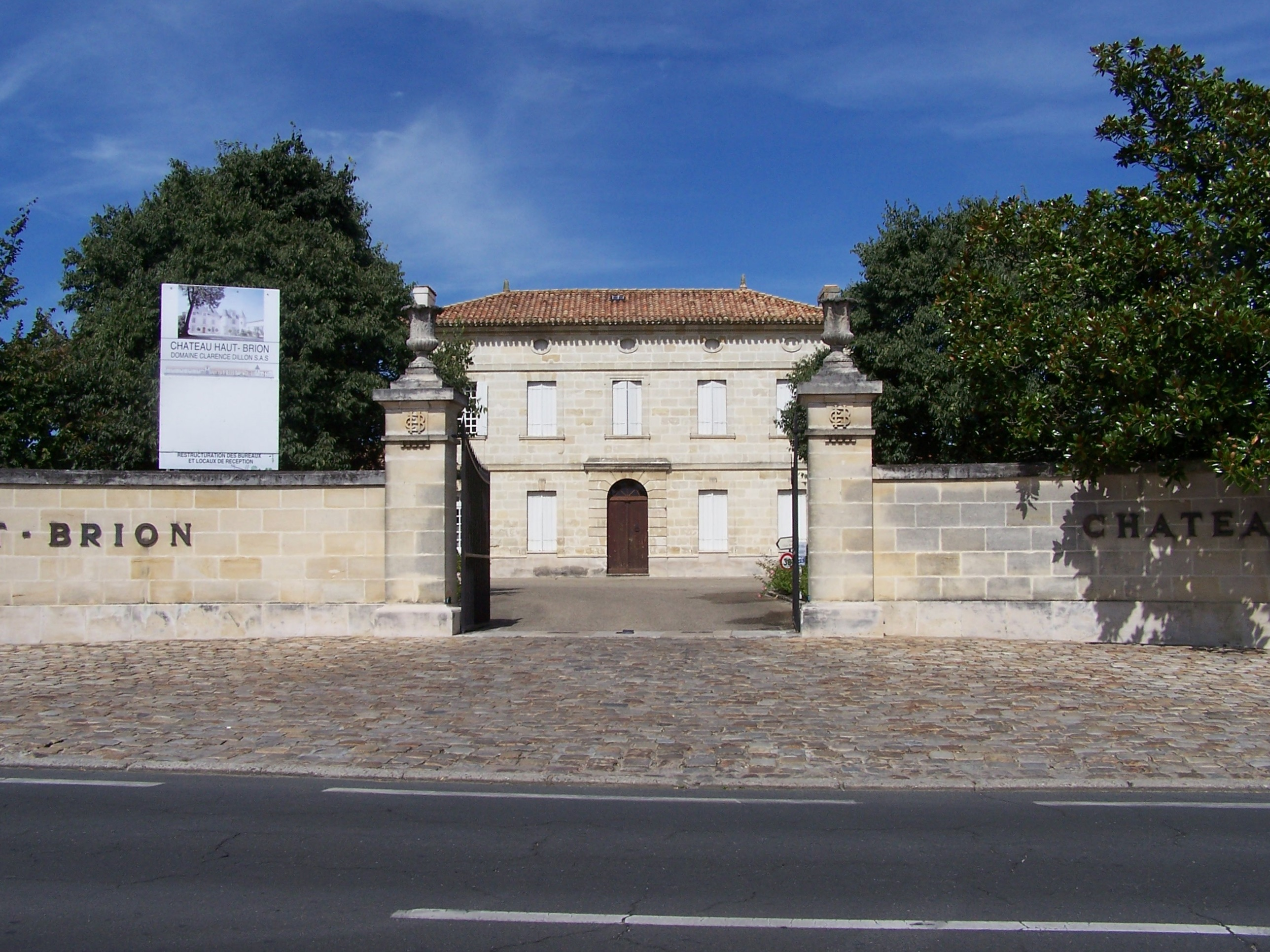 Entrance of the château Haut-Brion in Pessac (Gironde, France)